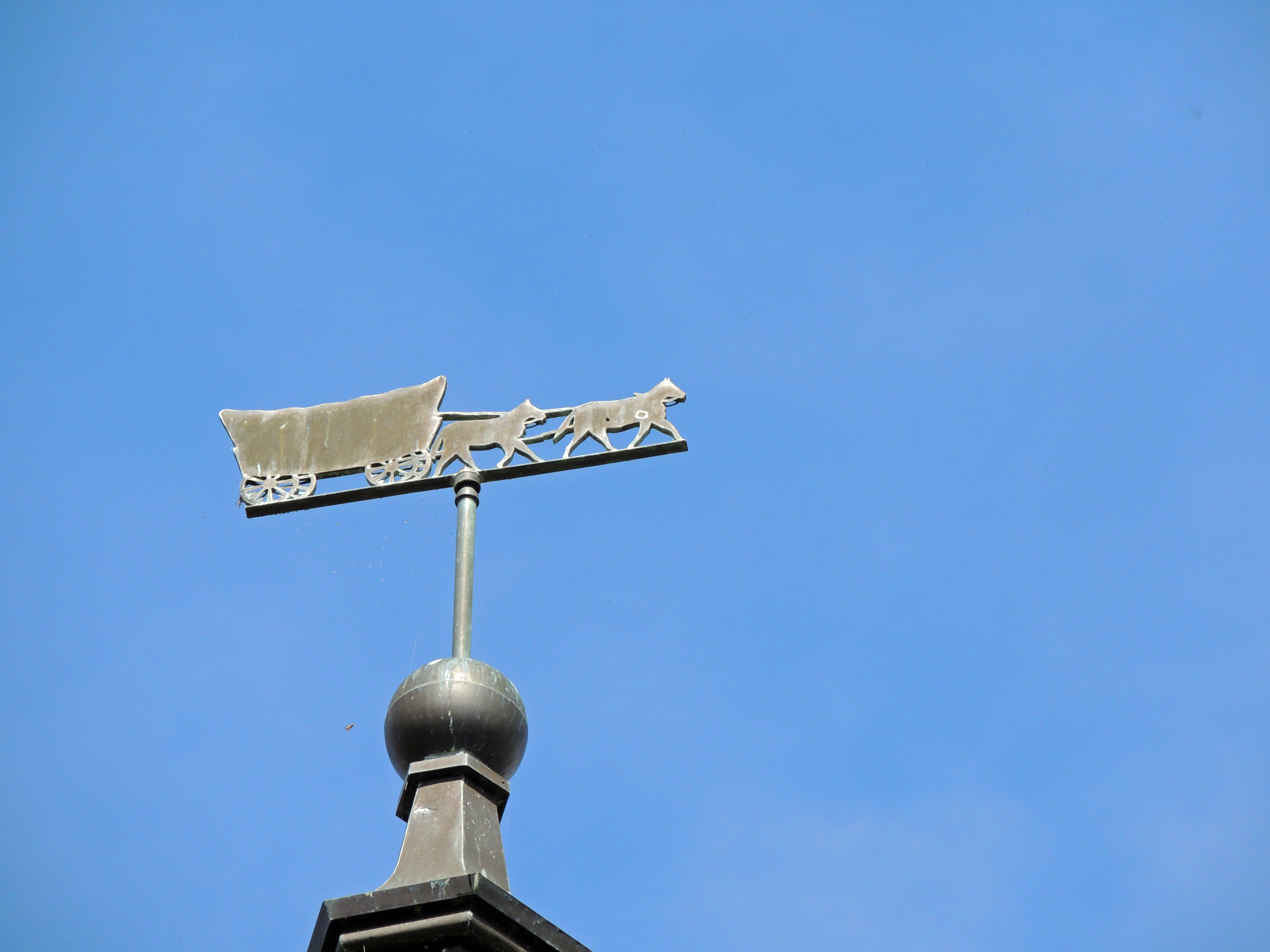 The conestogo wagon weather vane that tops off Pioneer Tower